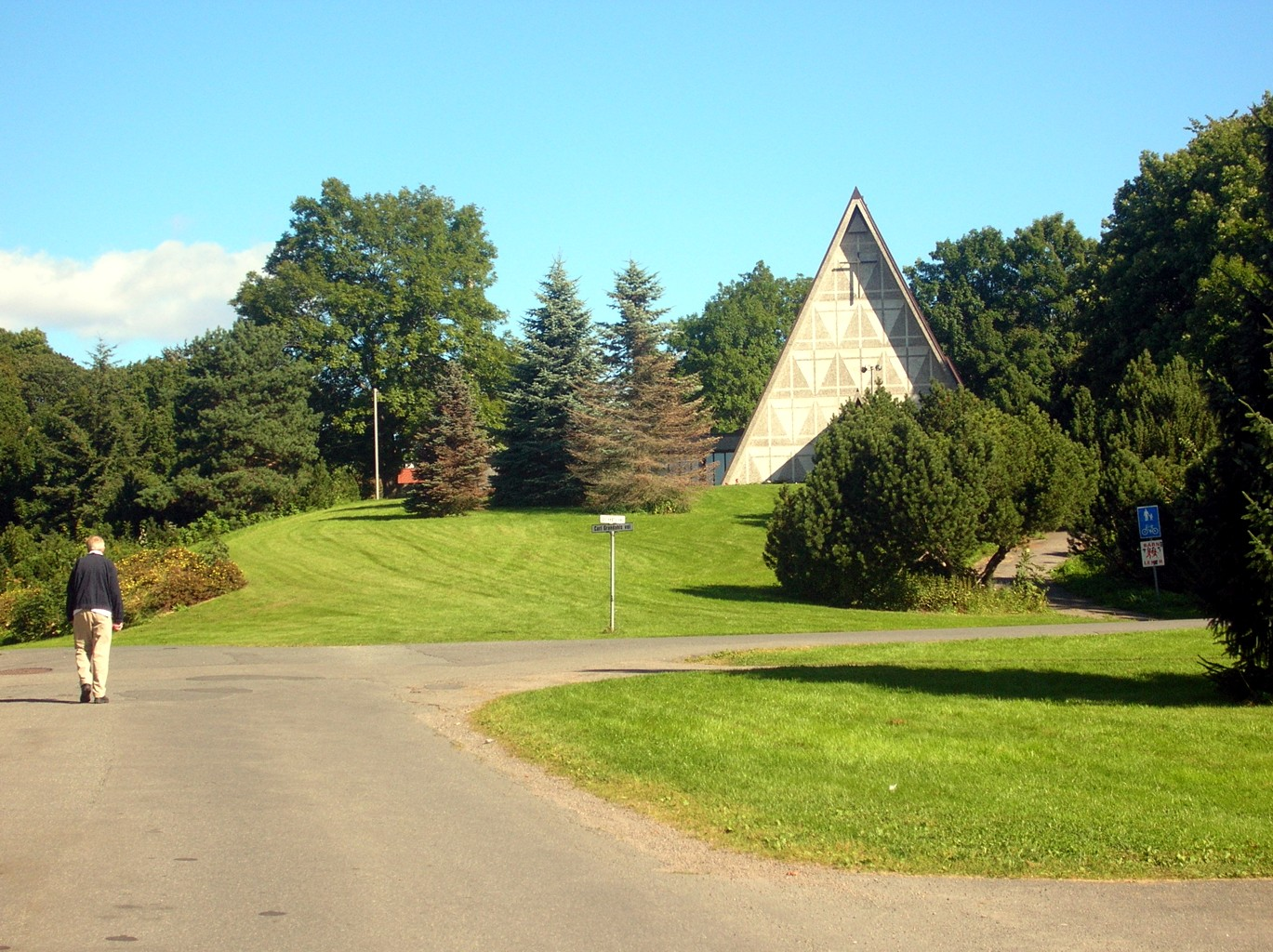 Bakkehaugen Church in Tåsen, Oslo (Norway)